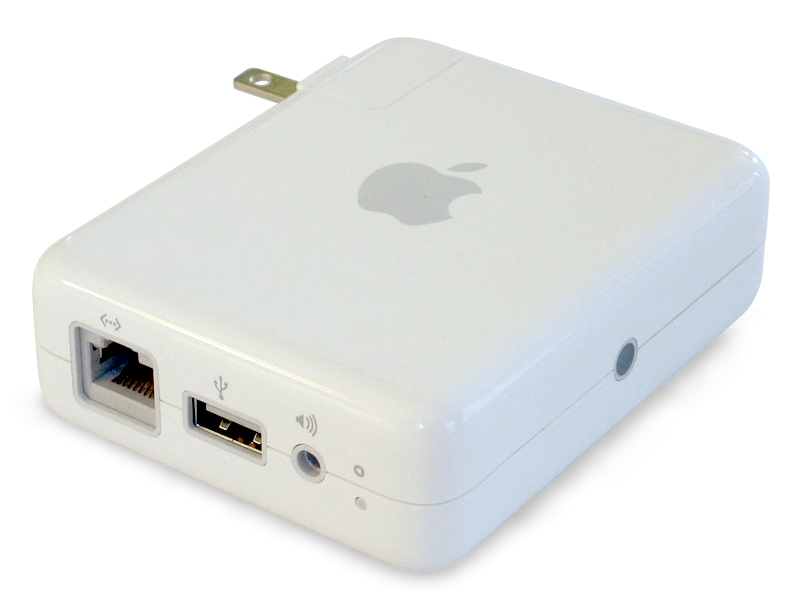 Photograph of Apple AirPort Express